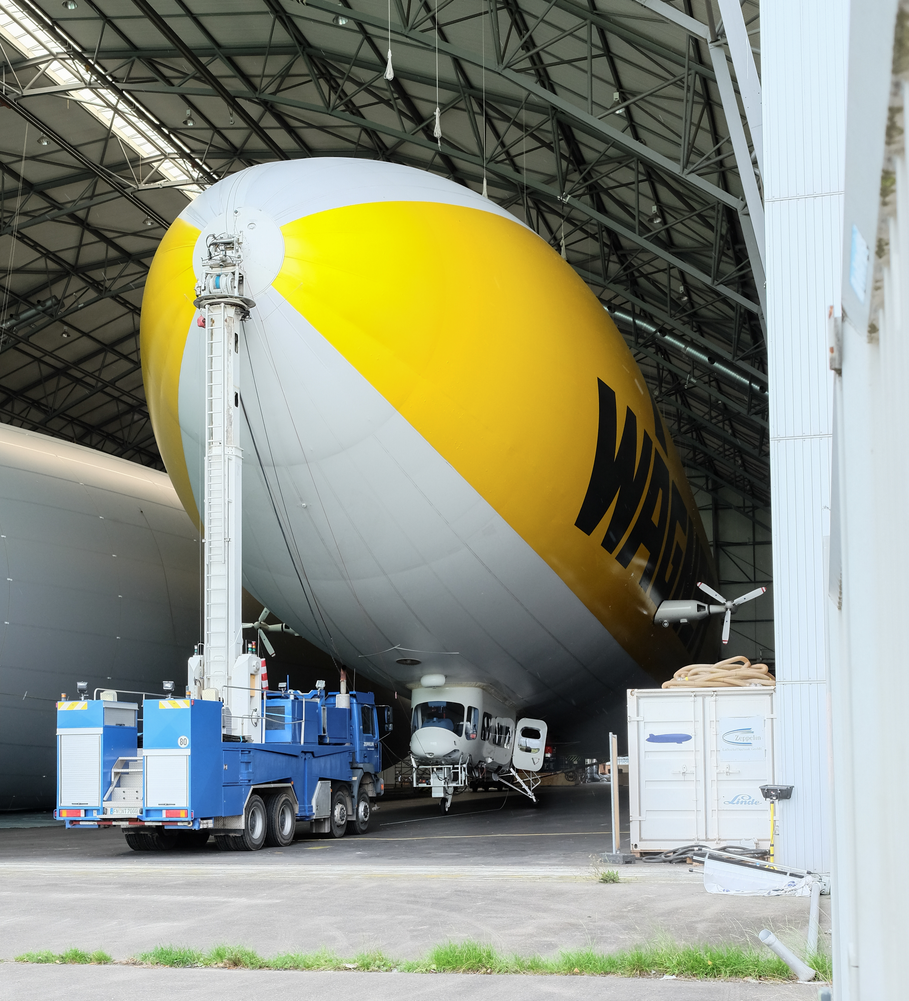 Airship D-LZFN Friedrichshafen, a Zeppelin NT, in the hangar, Friedrichshafen, district Bodenseekreis, Baden-Württemberg, Germany